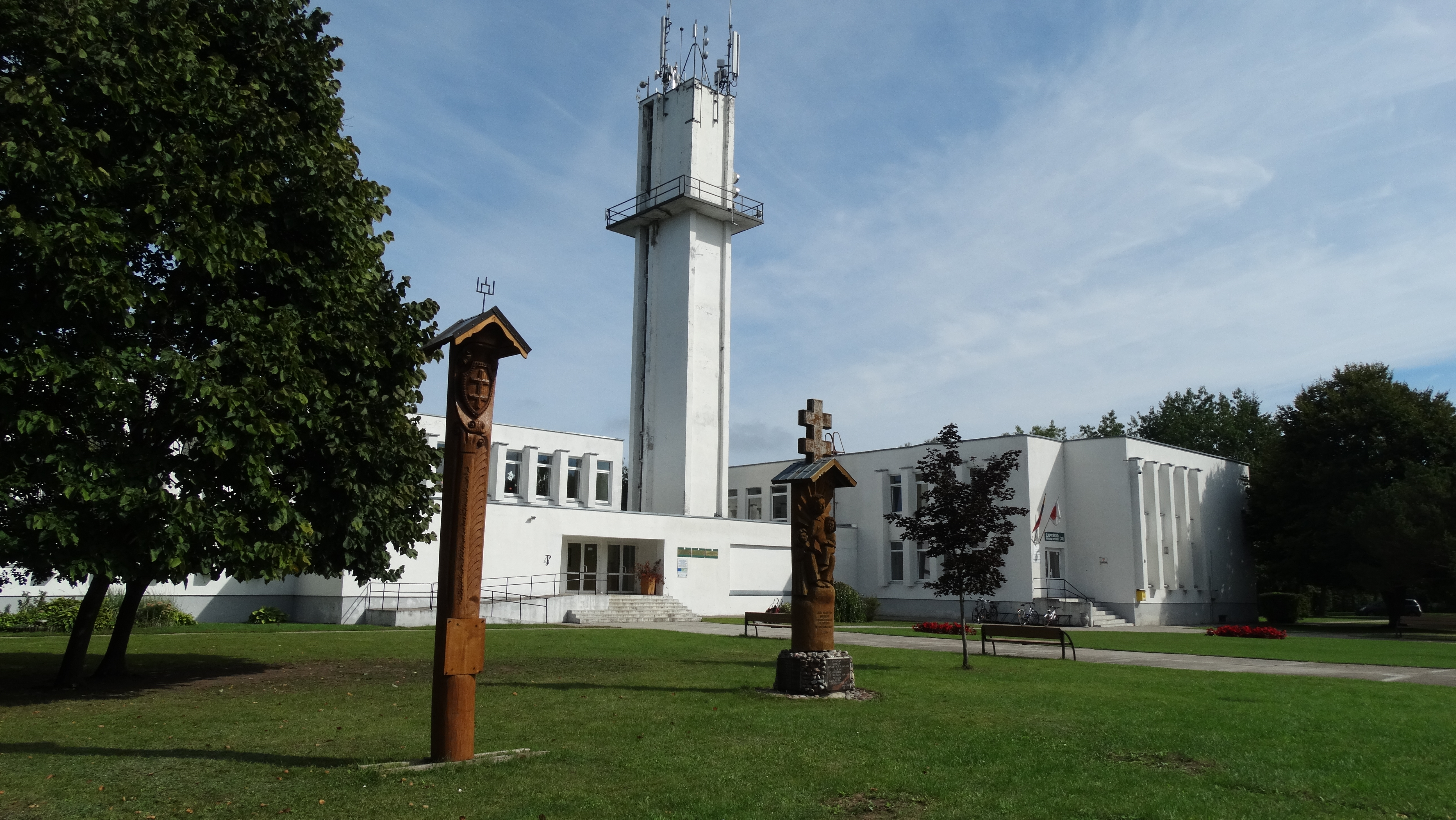 Zapyškis eldership in Kluoniškiai, Kaunas District, Lithuania